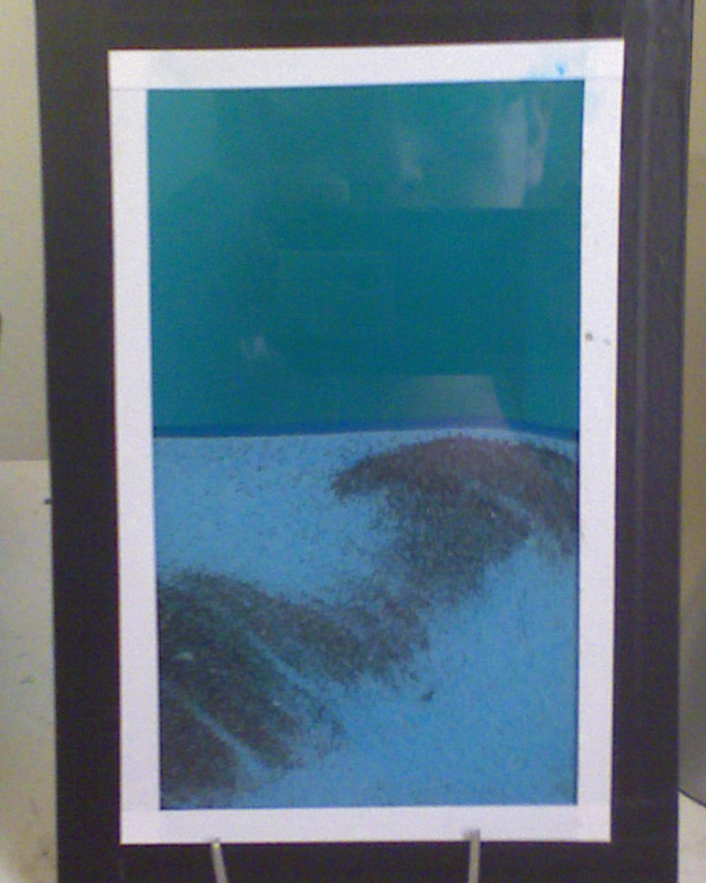 A blue sand glass.